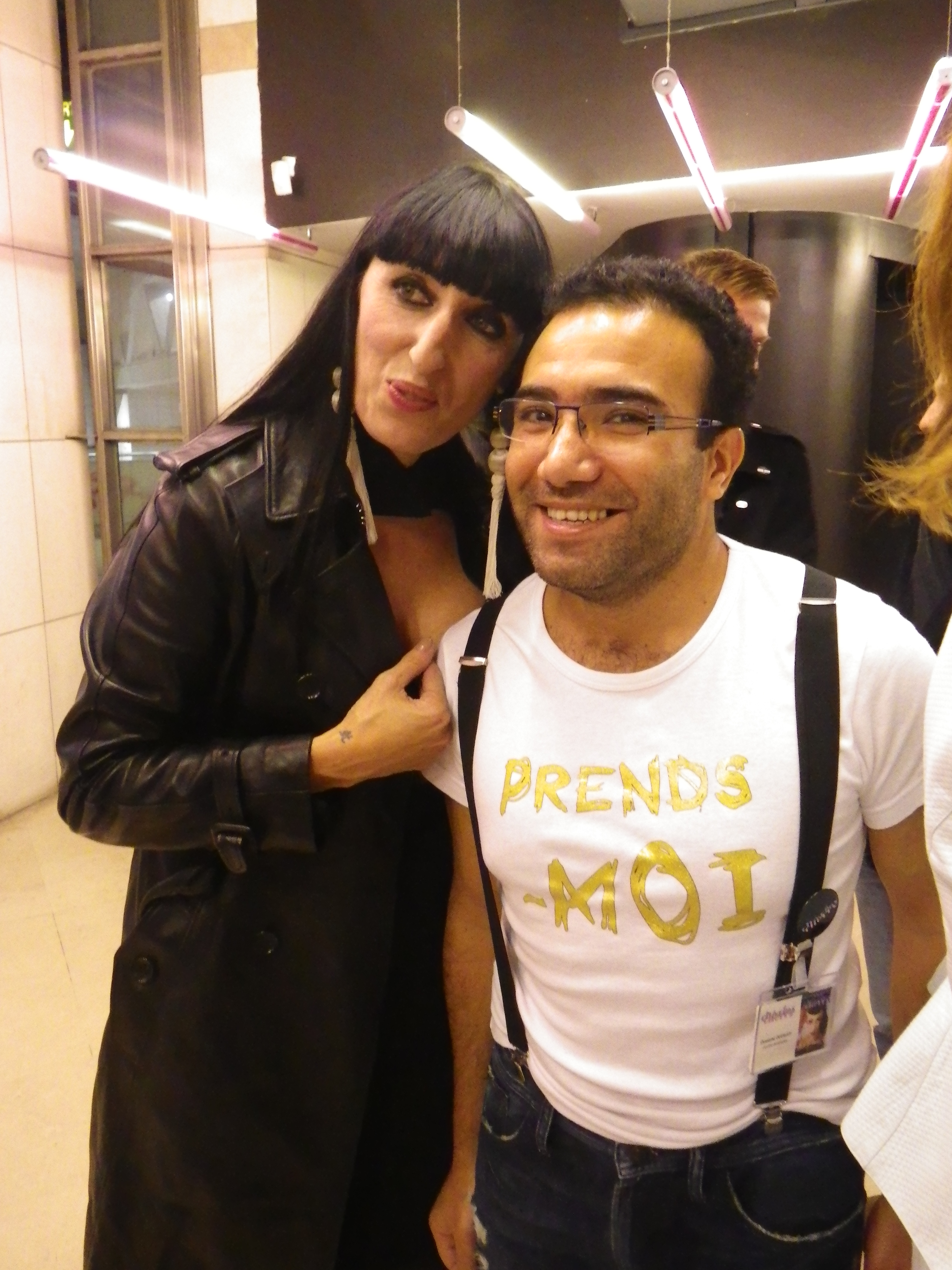 18th Chéries-Chéris Festival Film, Forum des Images, October 2012, Paris, France.